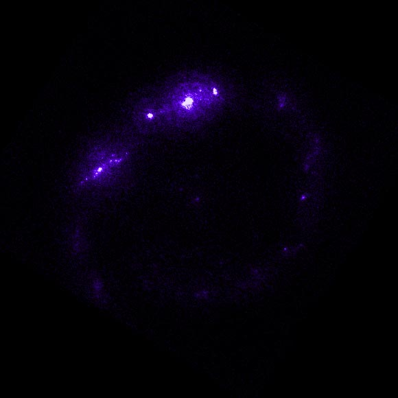 ABOUT THIS IMAGE: The color purple (2200 Å) represents ultraviolet light, which cannot be seen by the human eye. Image taken by HST's Faint Object Camera (FOC). Object Name: NGC 1512 Image Type: Astronomical